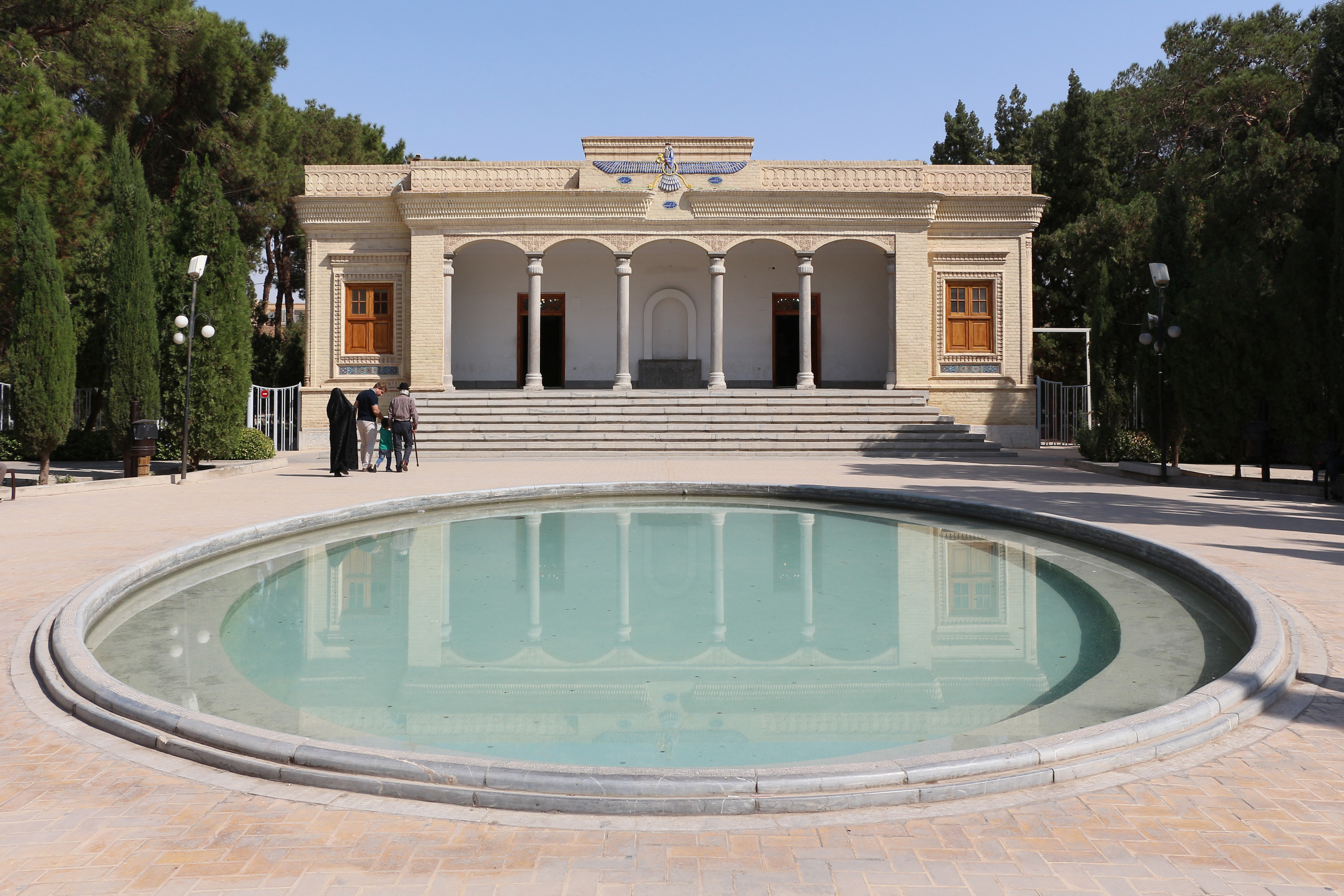 Yazd Atash Behram (Fire Temple), Yazd, Iran